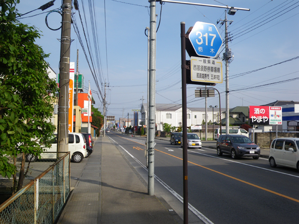 Tochigi prefectural road No.317 on Nasushiobara city.